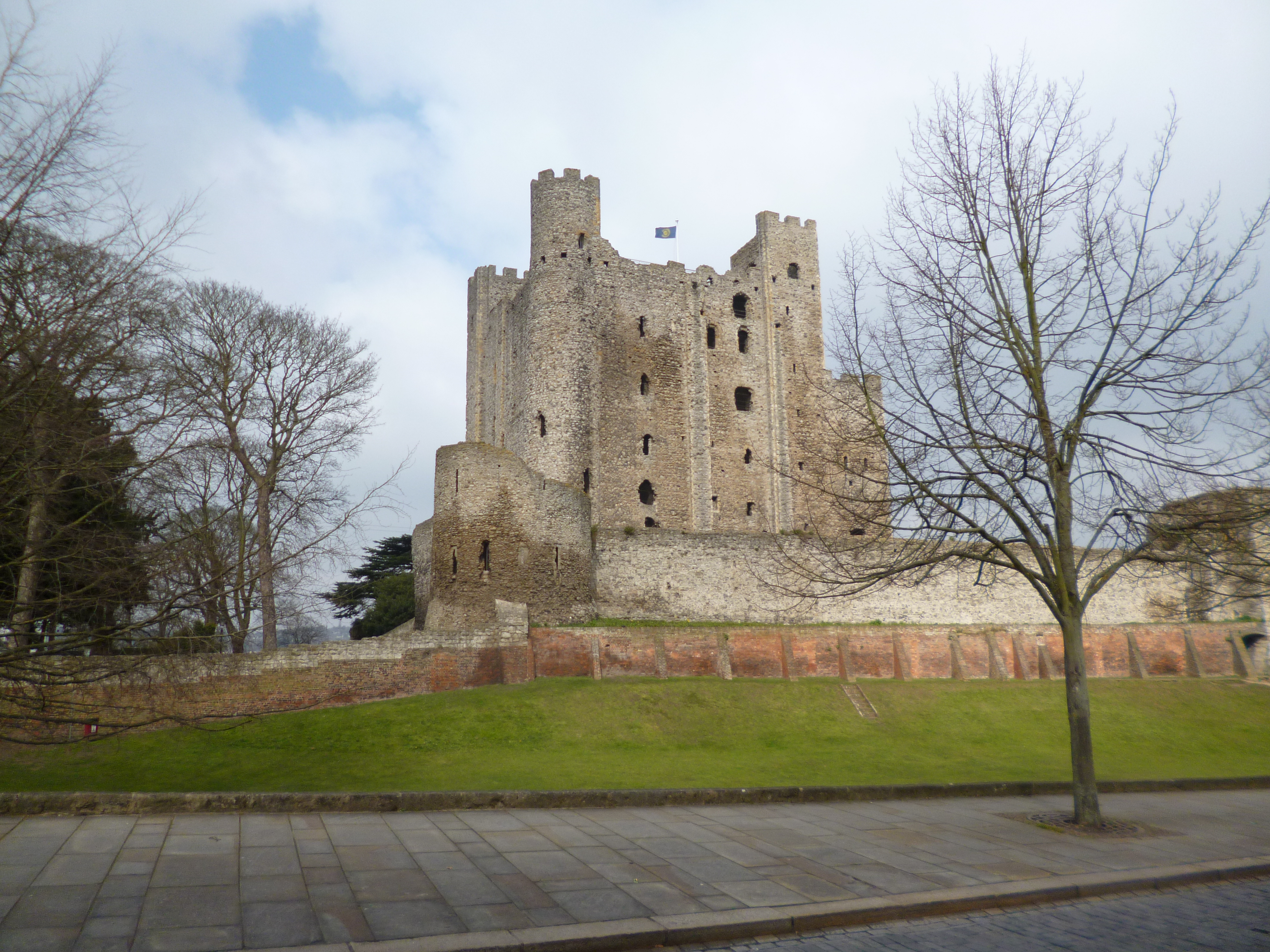 Rochester Castle Wikidata has entry Q1125527 with data related to this item.